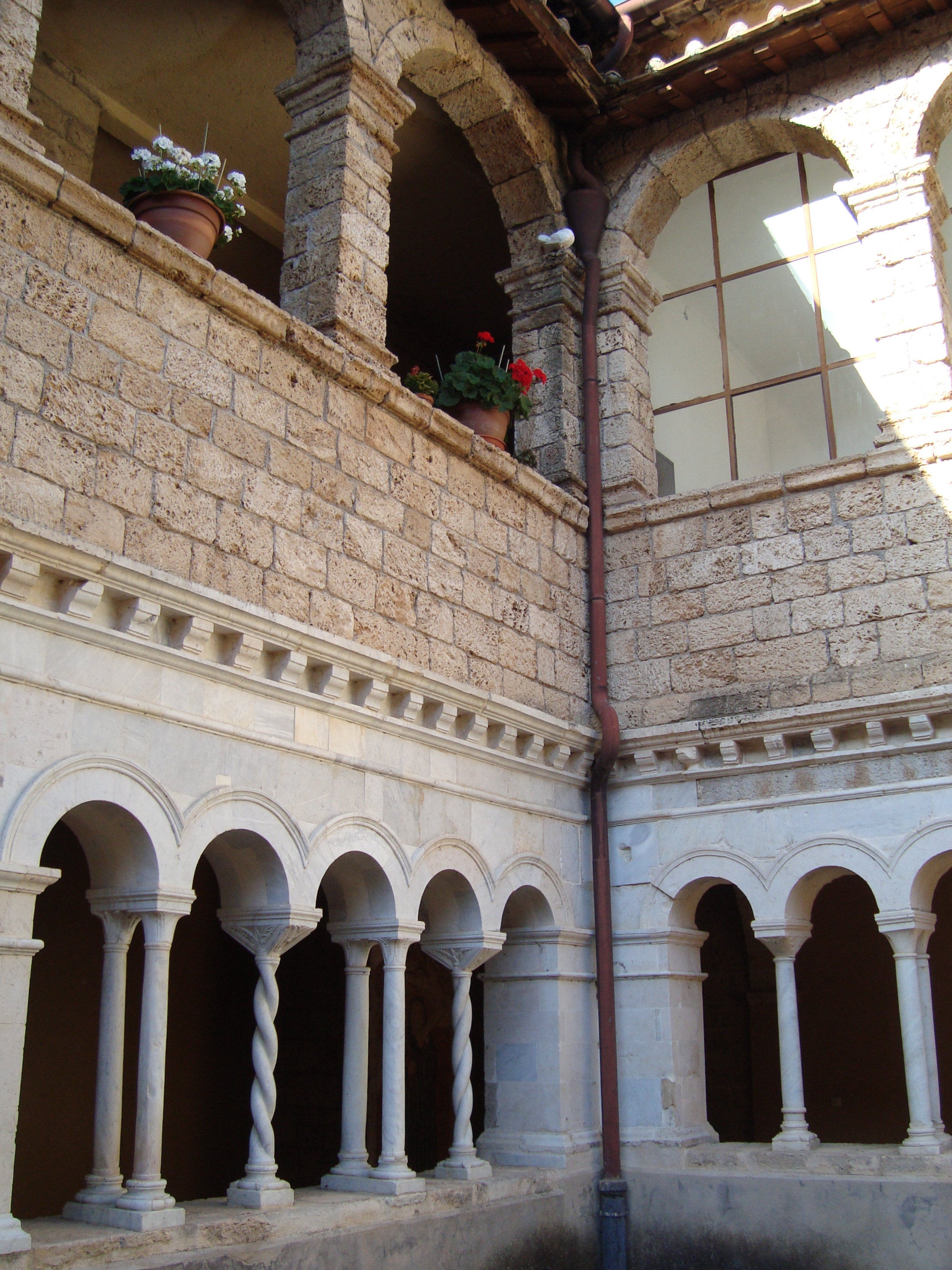 Abbey Santa Scholastica, Subiaco, Italy